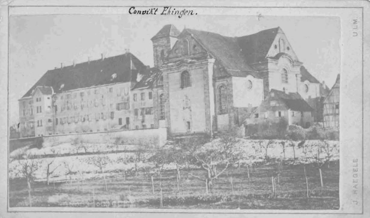 Boarding school and gymnasium in Ehingen (Donau), before 1885/86, in which year the bell tower was rebuilt